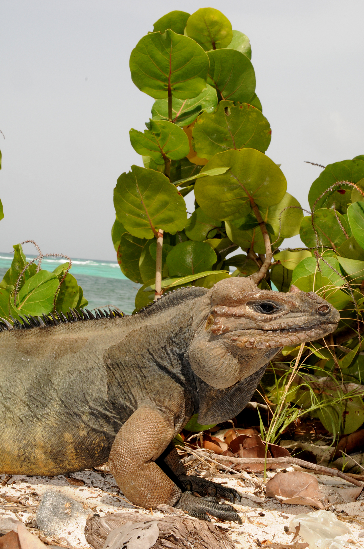 Mona Island Iguana Common name